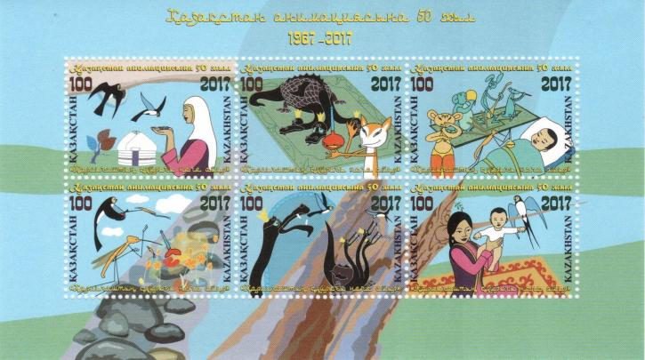 1083-1088. 50th anniversary of Kazakhstan animation. Why the swallow has the tail with little horns